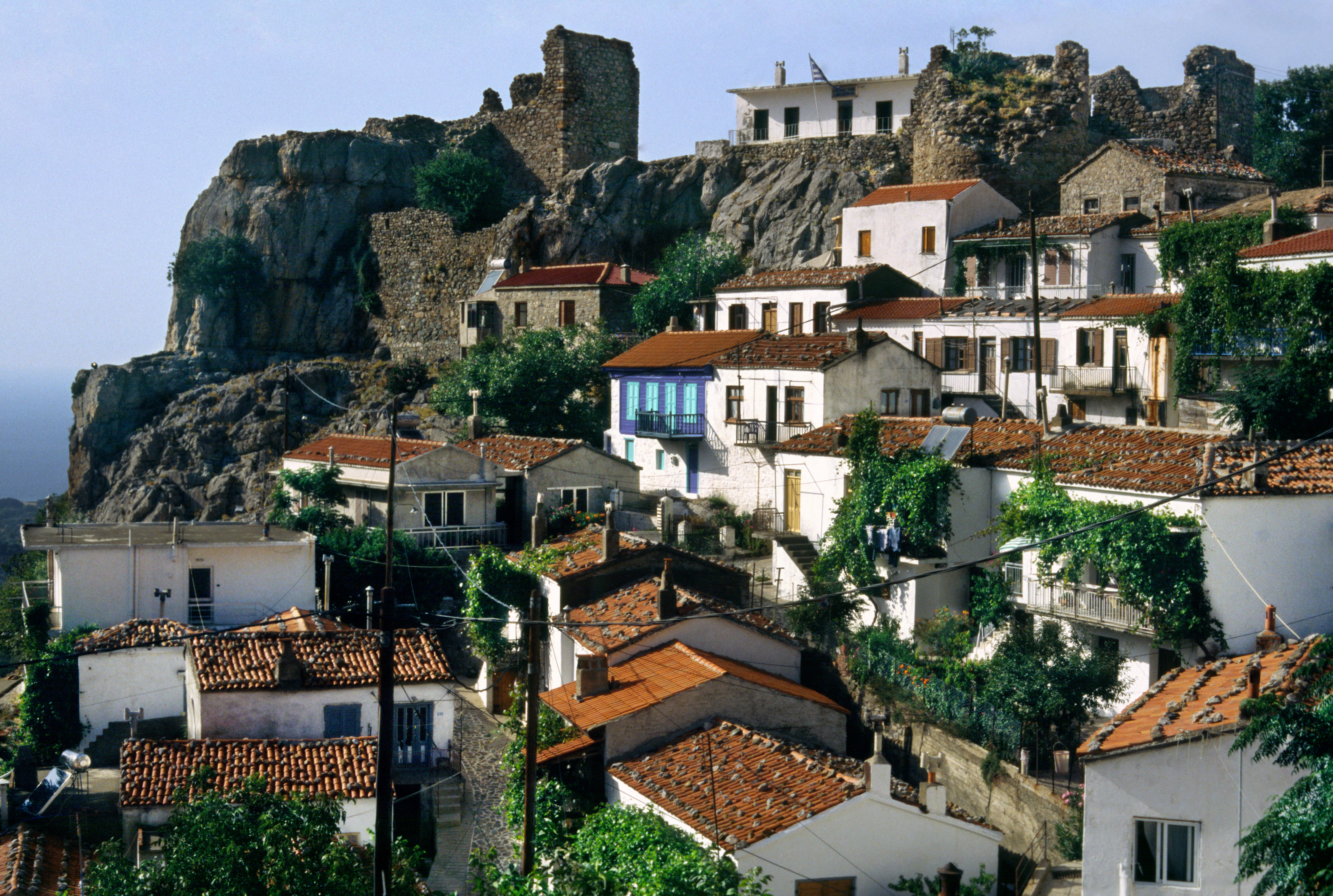 Samothrace village, Samothrace island, Thrace, Greece.